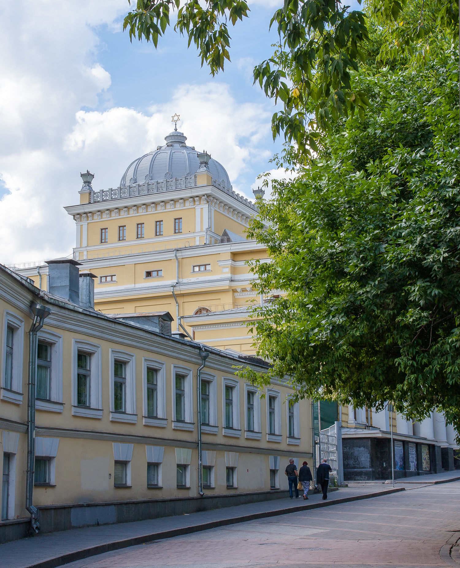 Moscow Choral Synagogue / Moscow, Russia